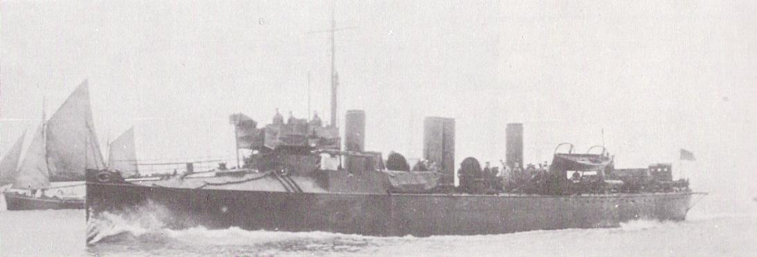 British destroyer HMS Zephyr after she was reboilered and converted from one funnel to four